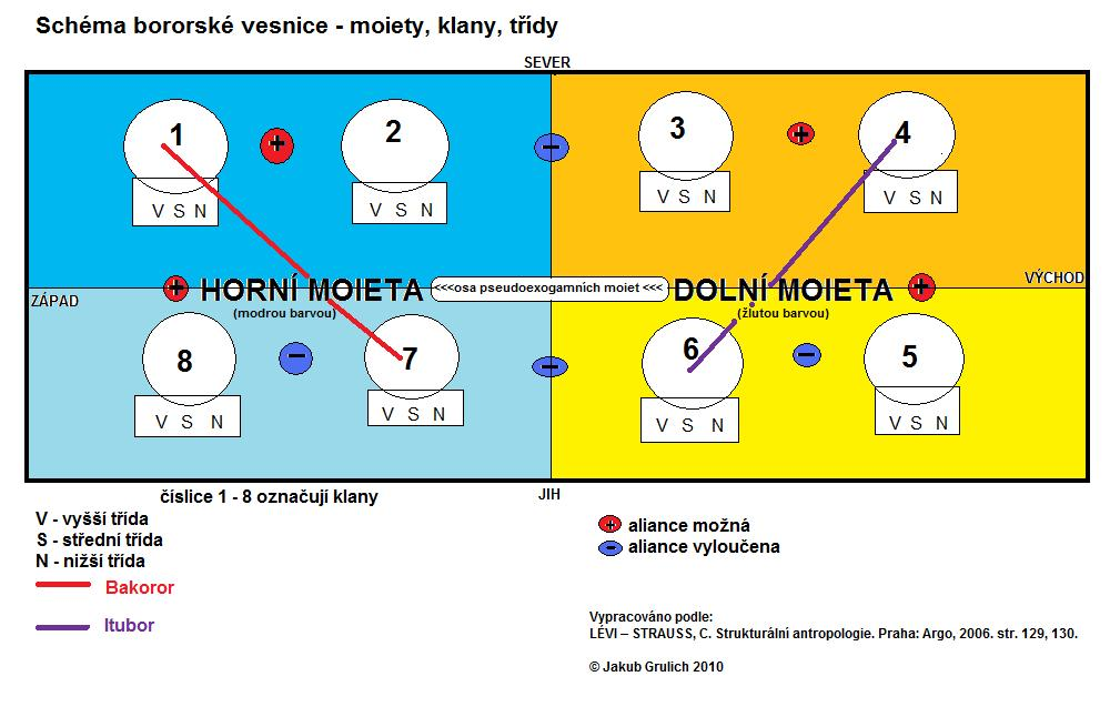 Chart of Bororo village